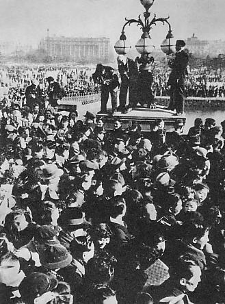 Nijubashi Incident